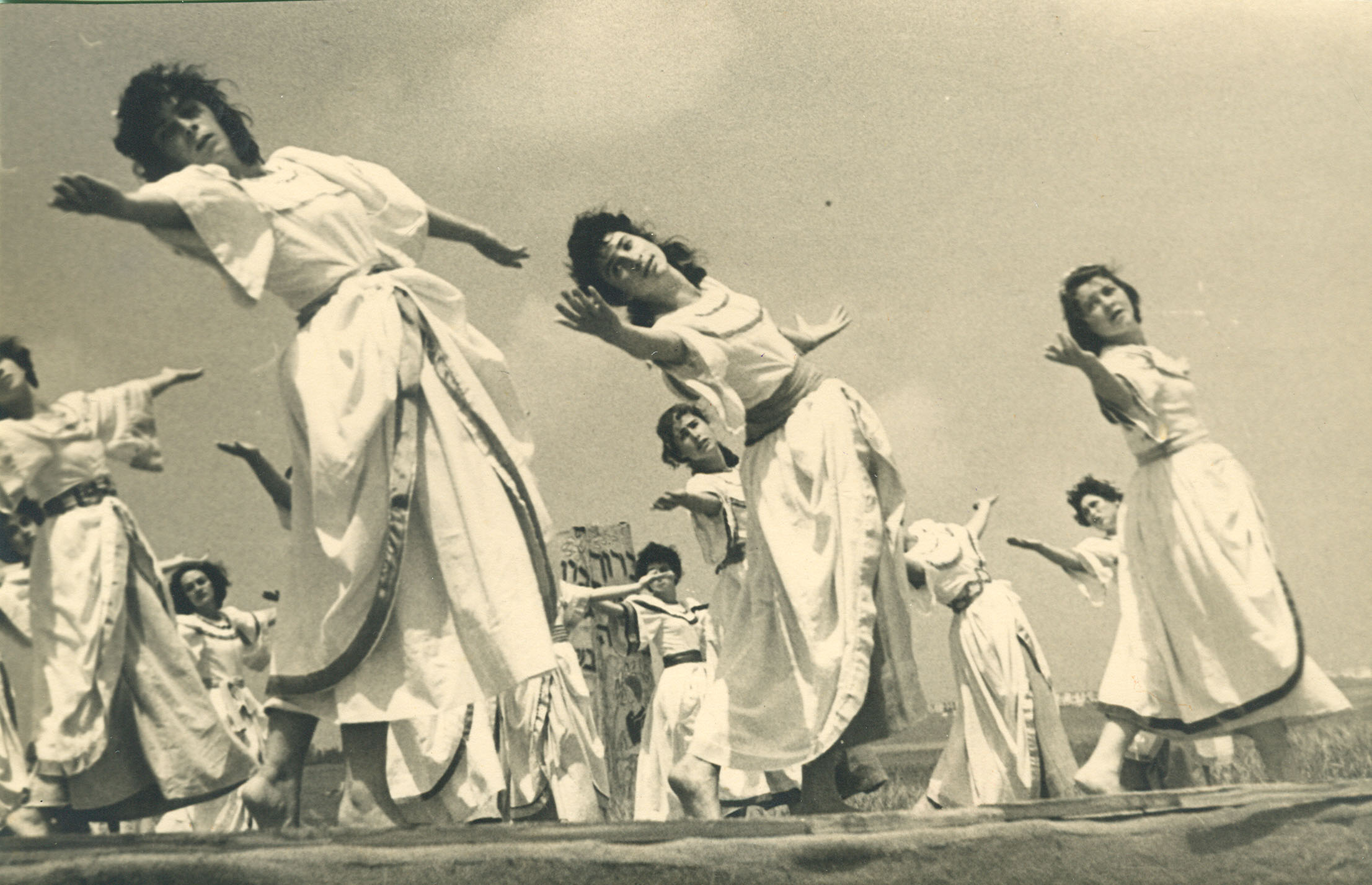 Ramat Yohanan - Omer festival, Jewish holidays; Location:שדות רמת יוחנן; Original Image Name:חג העומר ברמת יוחנן בשנות הארבעים